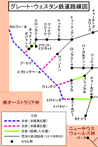 Map of the Great Western Railway formerly planned in Queensland, Australia. It is written in Japanese. The blue dotted line shows the trunk line which was not opened. The pink dotted lines show the sections of spur lines which were not opened. The green lines show the sections of spur lines which were opened, some of them were closed afterwards.